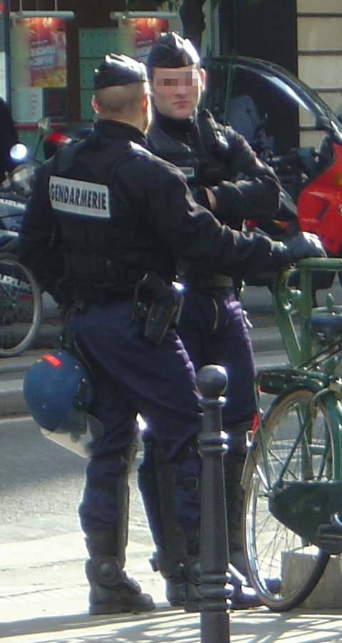 2006-02-08, Paris: The weekly Charlie Hebdo having published copies of the Jyllands-Posten Muhammad cartoons, mobile gendarmes were position in prevention of possible protests.